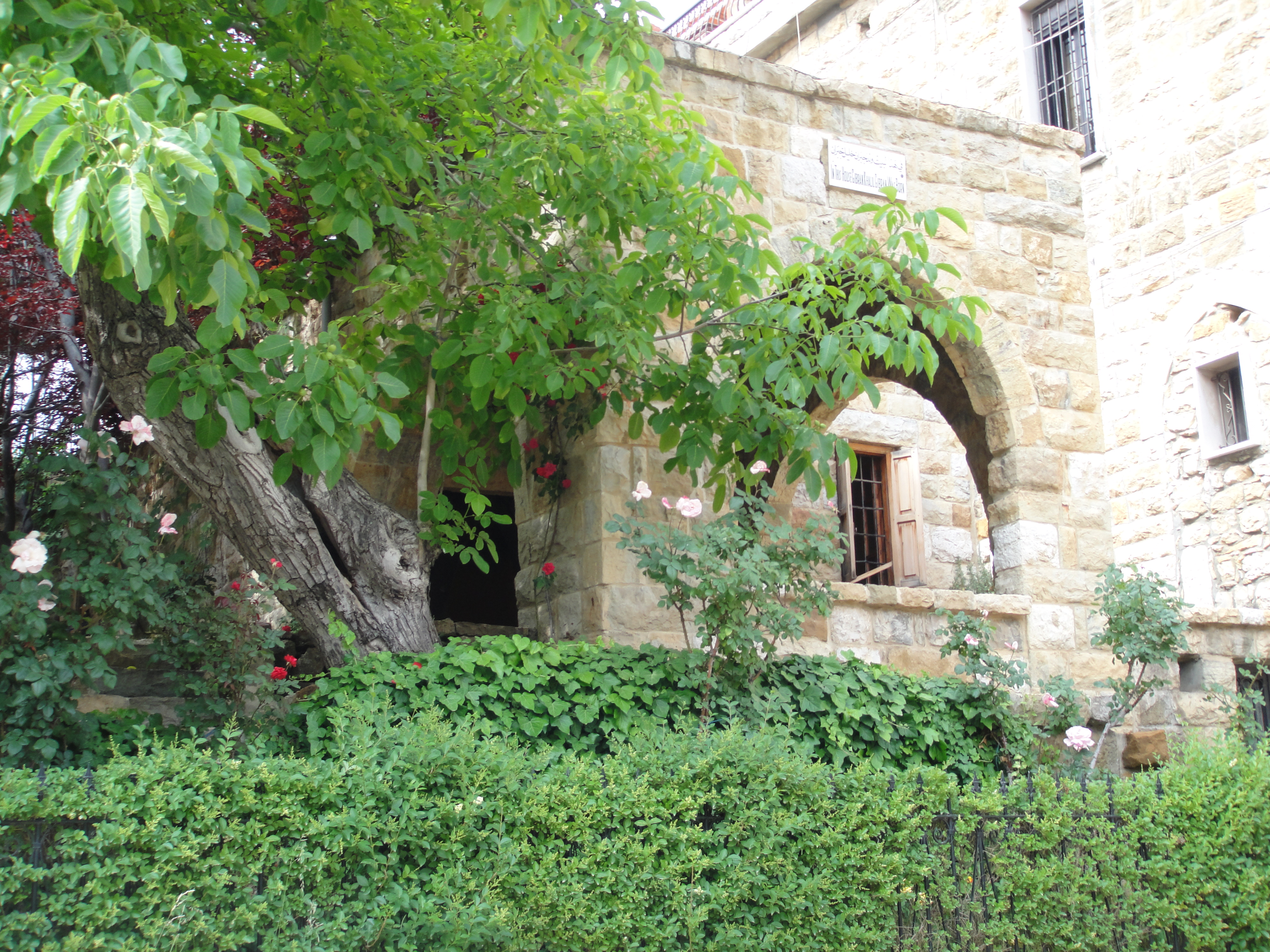 The house where Gibran lived in Bsharri.